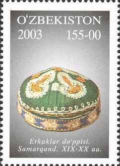 Stamps of Uzbekistan, 2003